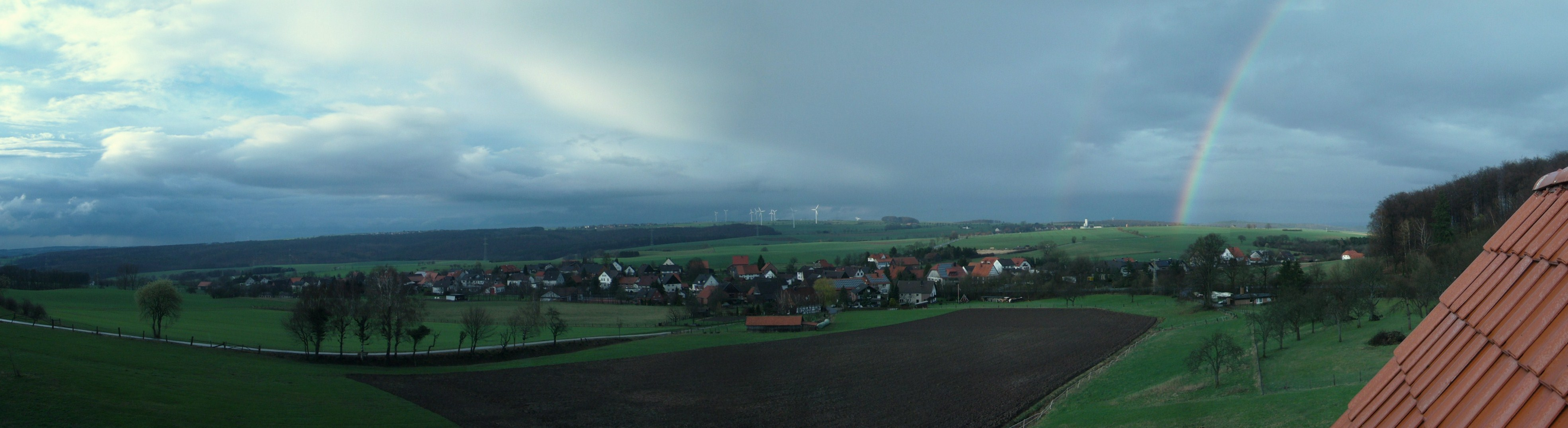 Little village Wörderfeld, by City Lügde, NRW, Germany.